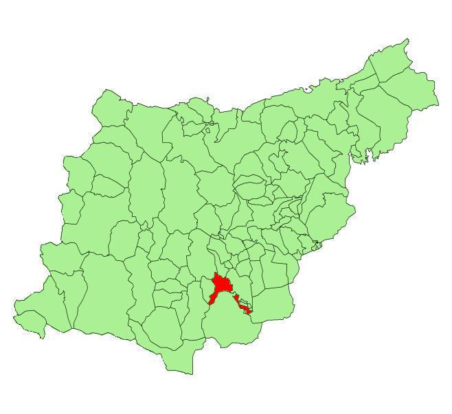 Lazkao municipality in the province of Guipuzcoa